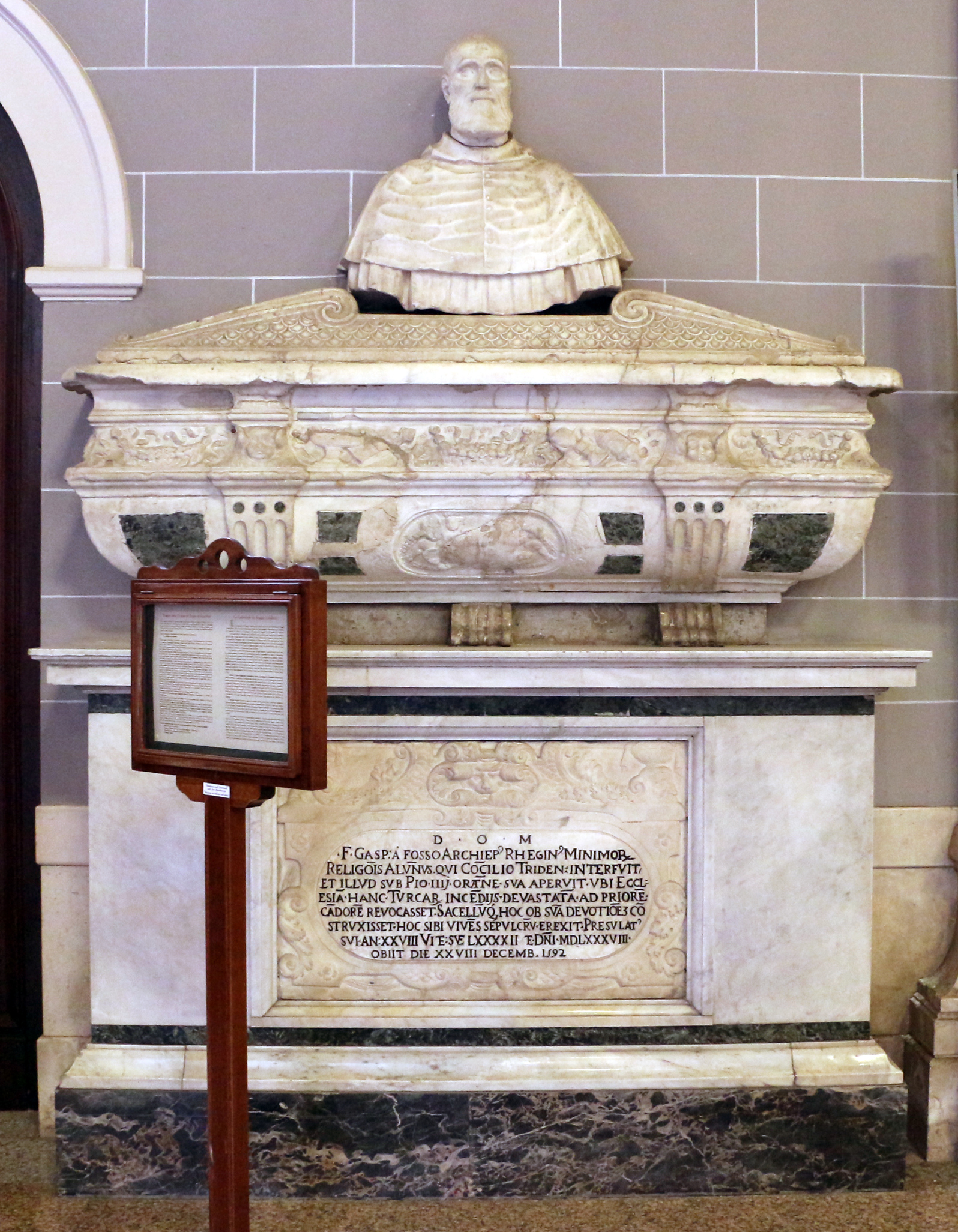 Cathedral (Reggio Calabria)